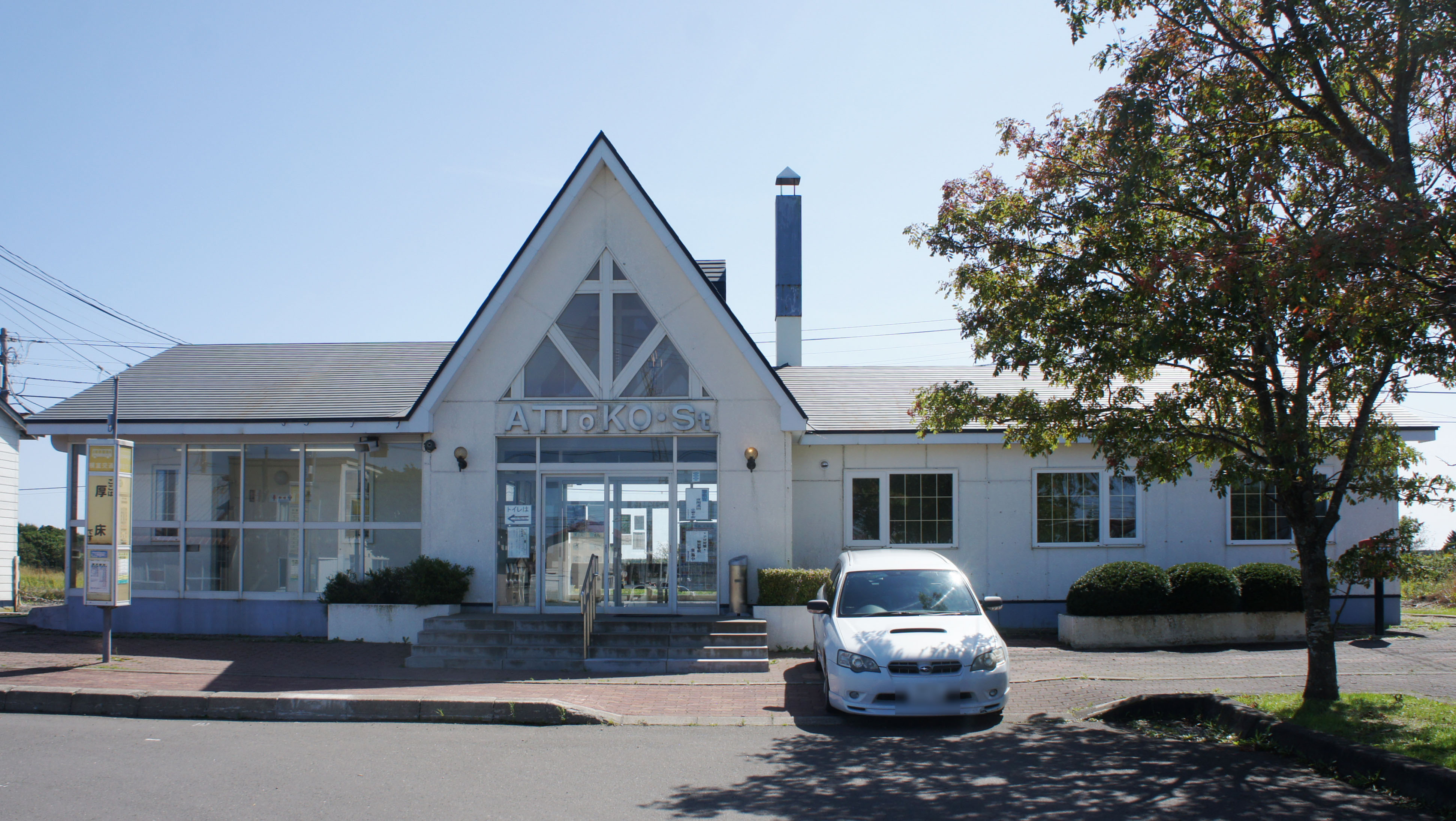 Station building of JR Nemuro-Main-Line Attoko Station